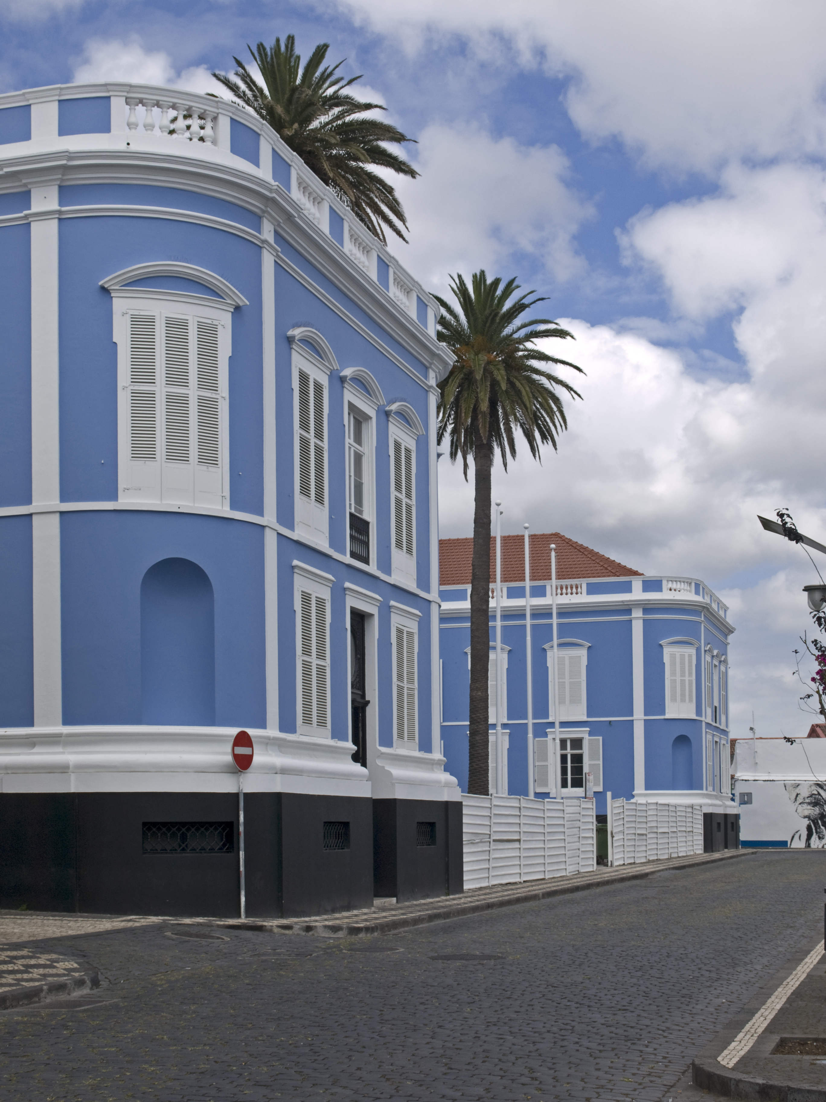 Palácio da Conceição, southwest corner, Ponta Delgada